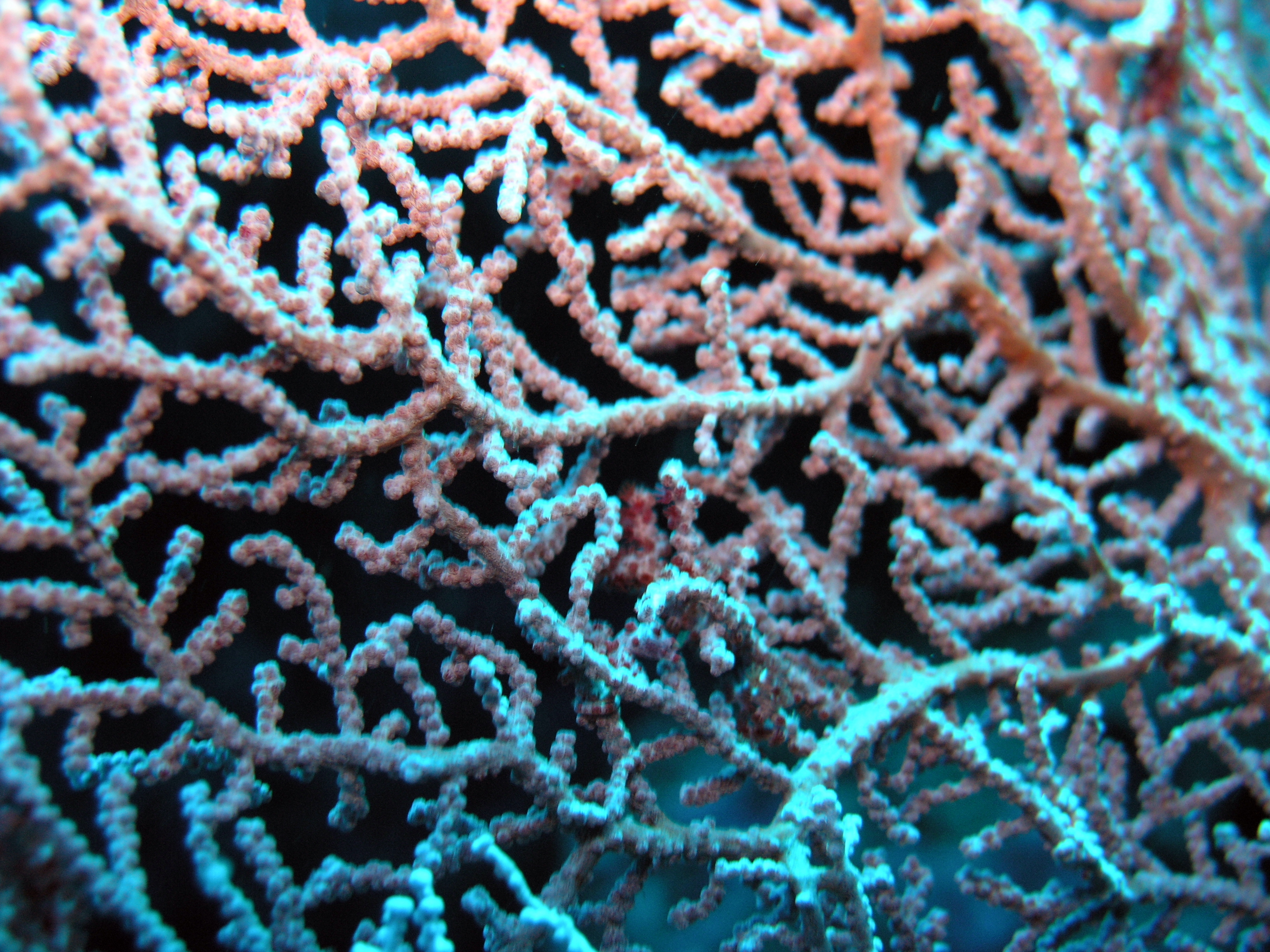 Image of Gorgonian coral Muricella plectana with a well camoflaged Pygmy seahorse. Hippocampus bargibanti. Taken at Lembeh Straits, North Sulawesi, Indonesia.